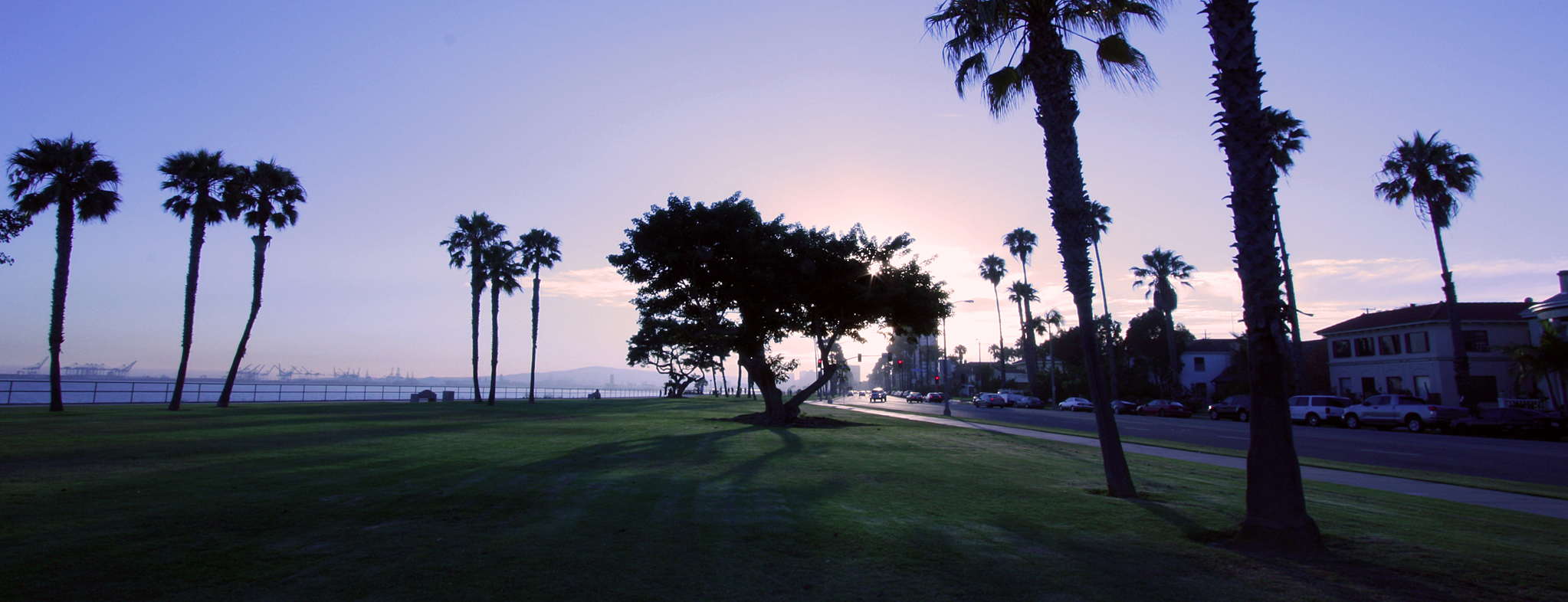 Bluff Park in Long Beach near sunset